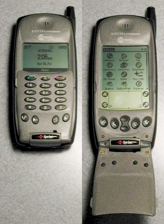 Two shots of a Kyocera 6035, for the Sprint PCS network, with flip closed and open Credit: User:KeithTyler Camera: Nikon CoolPix 775 Date: 21:16, Oct 15, 2004 (UTC) Location: Factoria, Washington